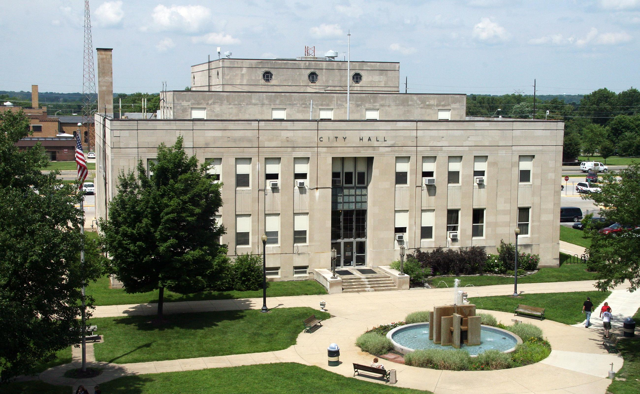 The city hall of Terre Haute, Indiana, photographed from the Vigo County Courthouse. Photo looks west.